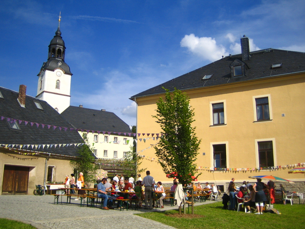 Parsonage and Church Drebach